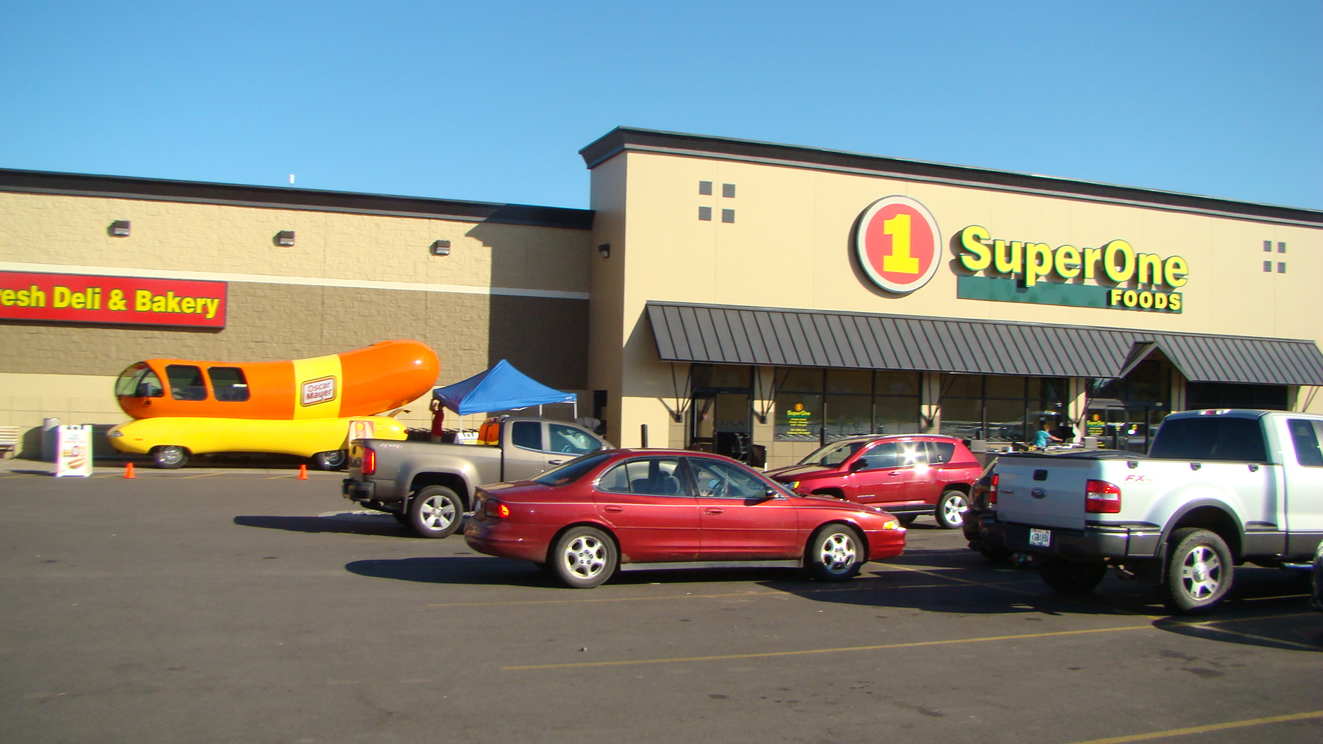 The Oscar Mayer Wienermobile, at Super One Foods, in Ashland Wisconsin.